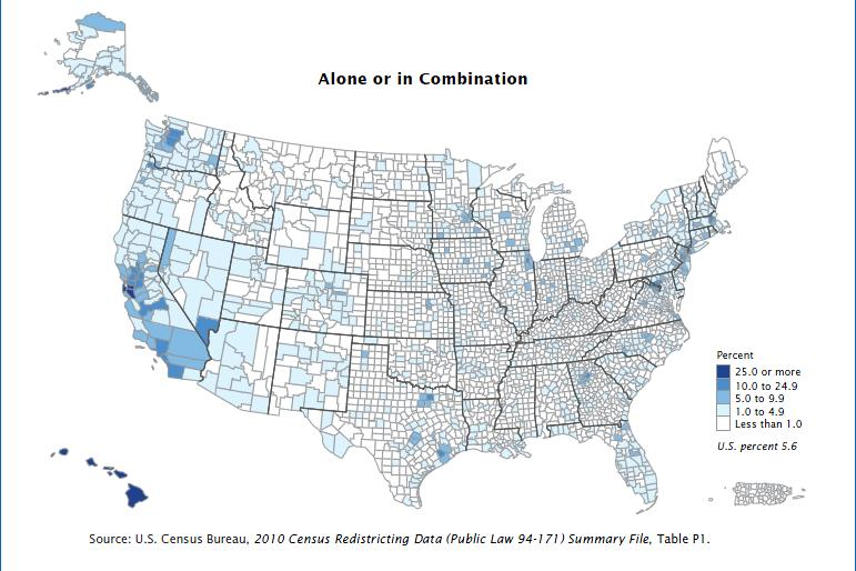 Cropped from page 10 of "The Asian Population: 2010"